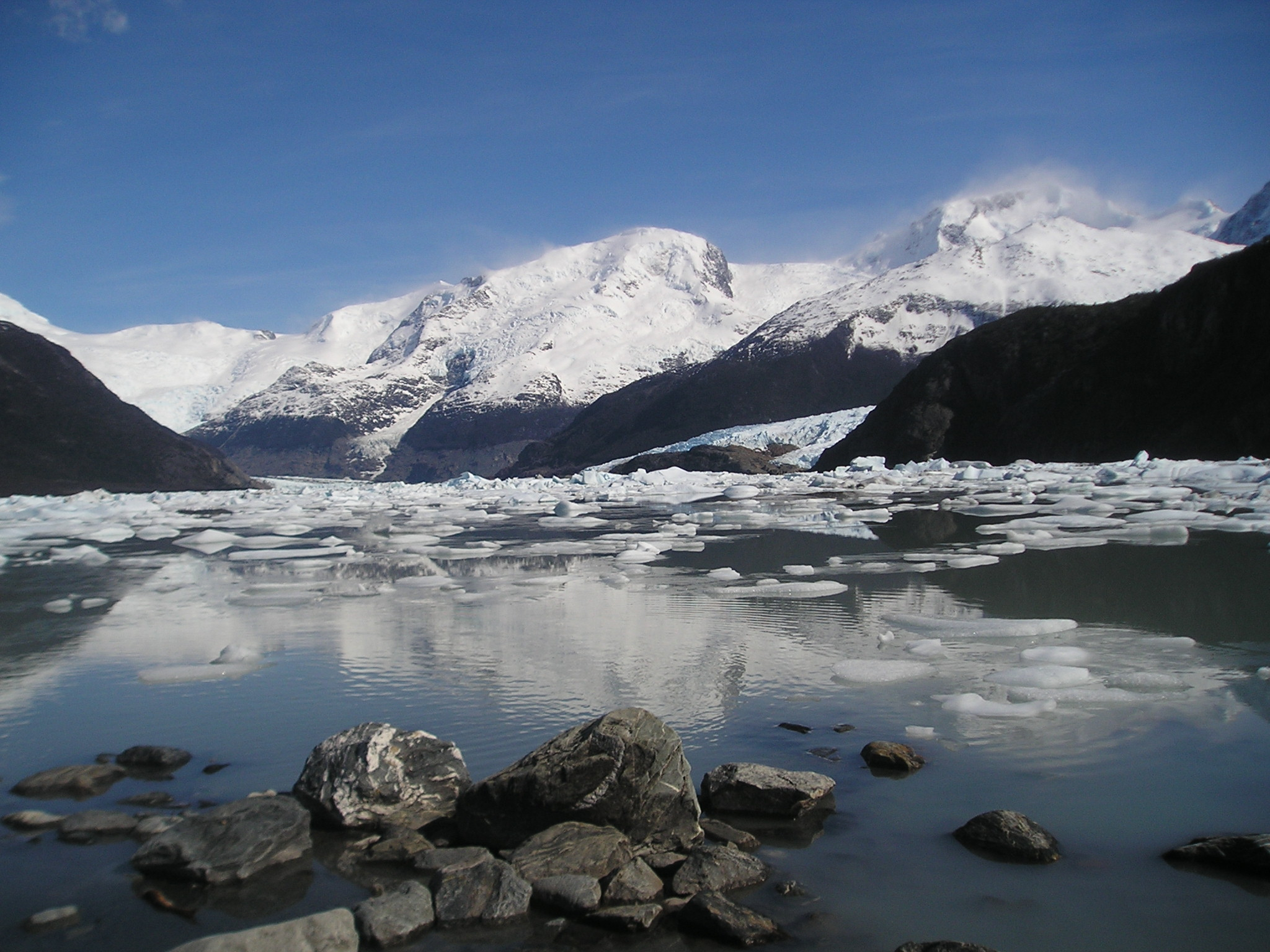 A view of Laguna Oneli, Los Glaciares National Park, Argentina